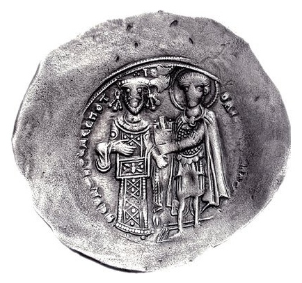 Theodore Comnenus-Ducas. Silver Trachy (2.60 g, 6h), struck circa 1227. ΦI/AC/O/(star) to right; PH/TH/CΔ/(star) to left / ΘEOΔΩPOC ΔECΠOT OΛIOC ΔIMTPI, Theodore, wearing crown and loros, and St. Demetrius, nimbate, standing facing, holding castle between themselves.